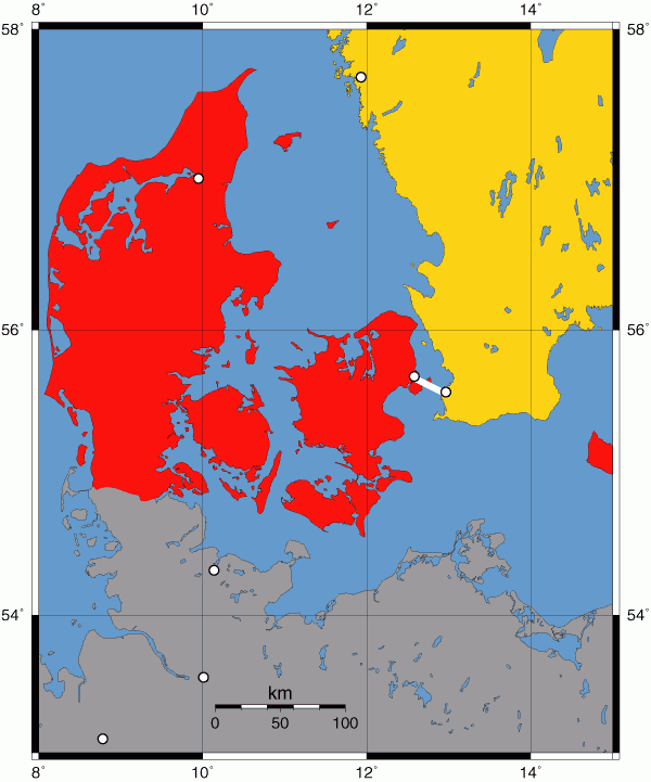 Map of Øresund bridge between Denmark and Sweden : Denmark in red on the left Sweden in yellow on the right Øresund bridge in white, between Copenhagen and Malmö (white bullets)